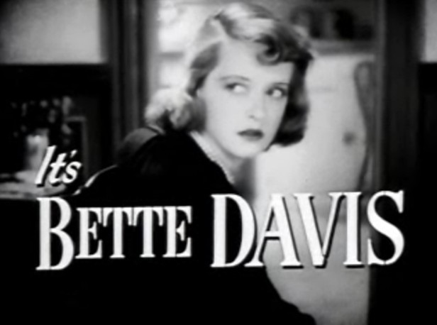 Cropped screenshot of Bette Davis from the trailer for the film Marked Woman.